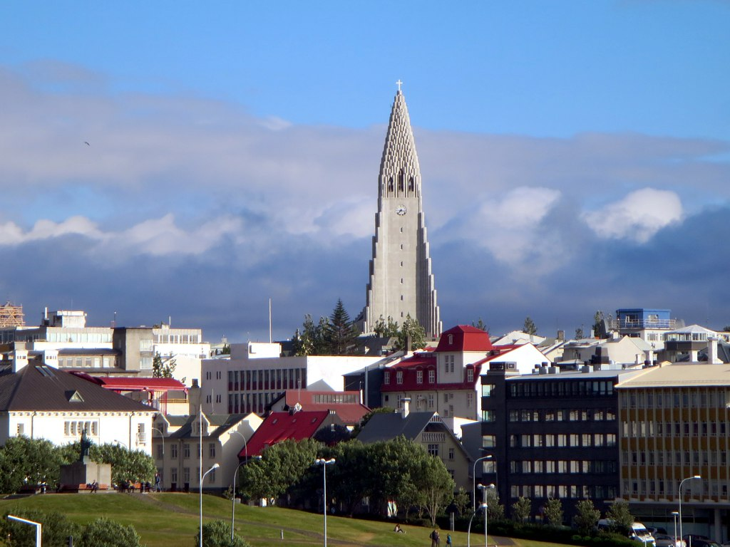 The 75-meter tower of the Hallgrimskirkja rises above Reykjavik, Iceland.